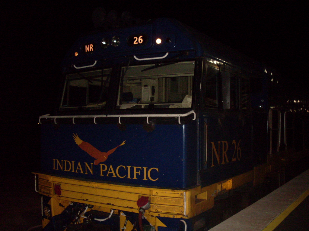 The Indian Pacific stationary at a stop in WA (2010).